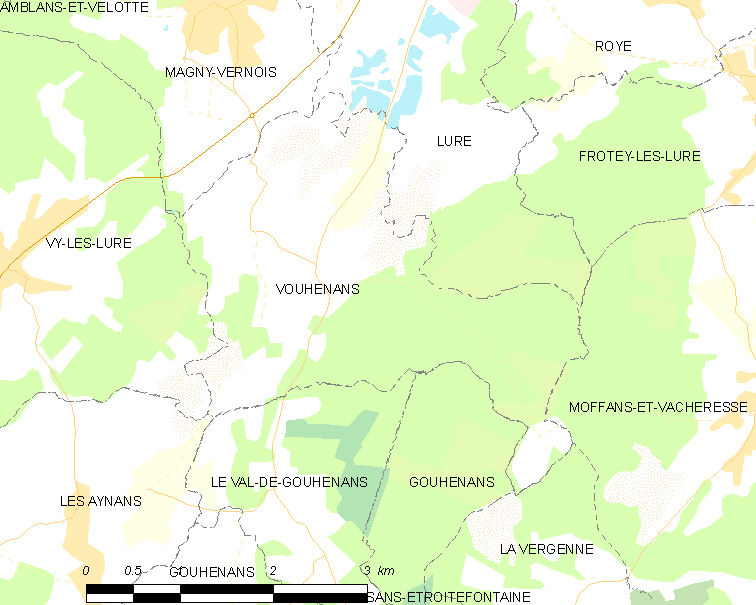 Map of French municipality